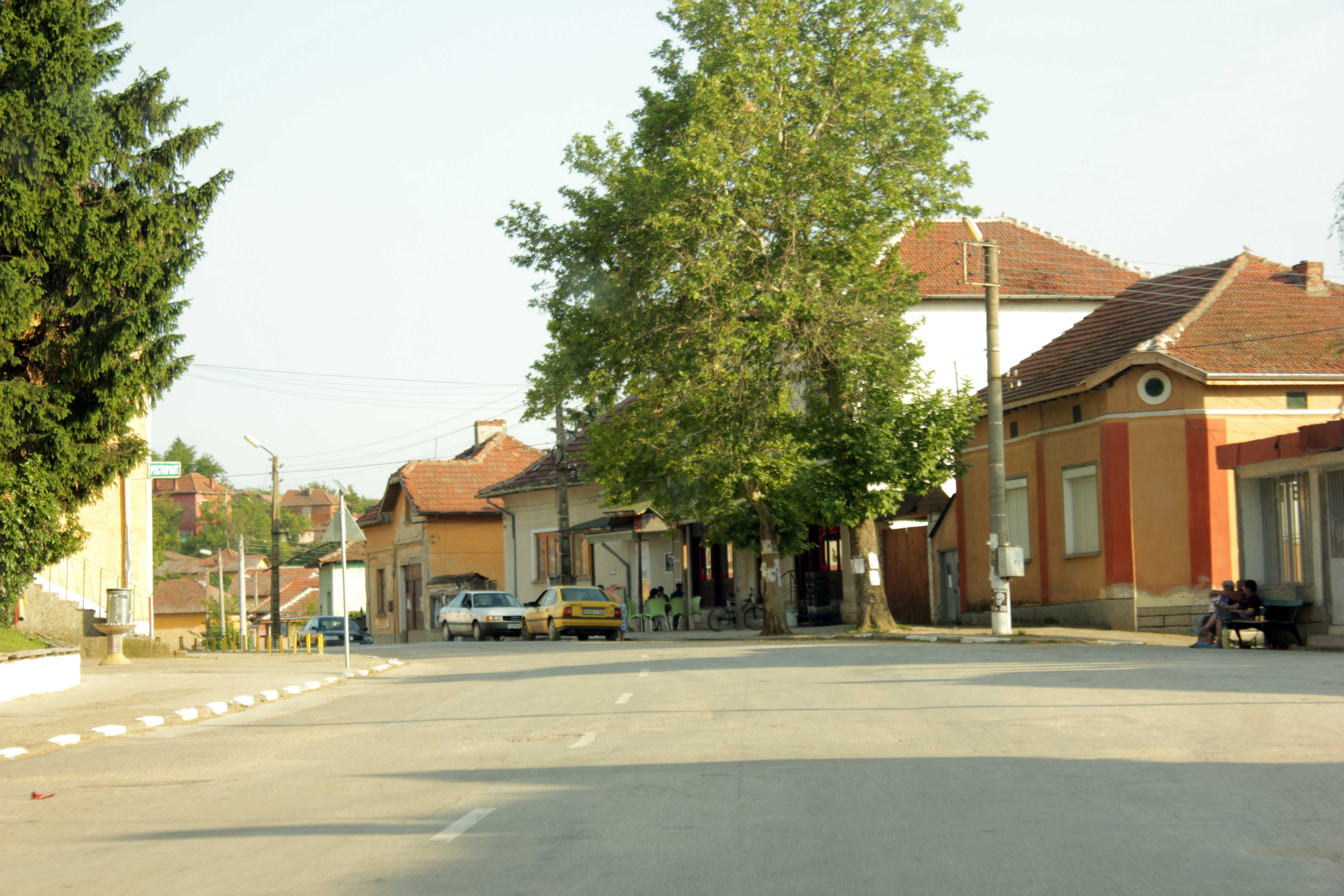 Pisarovo central square